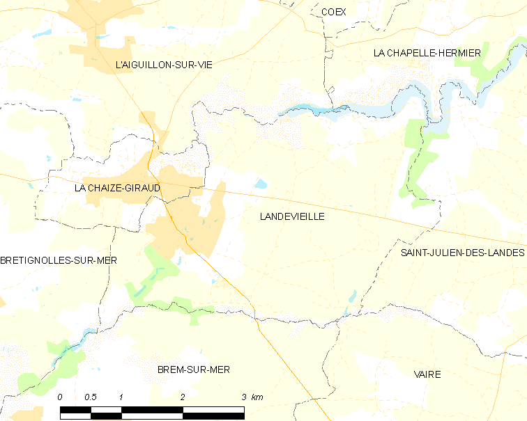 Map of French municipality Landevieille